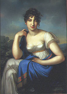 Portrait of Amalie Beer (1767-1854), Jewish salonière, mother of Giacomo Meyerbeer